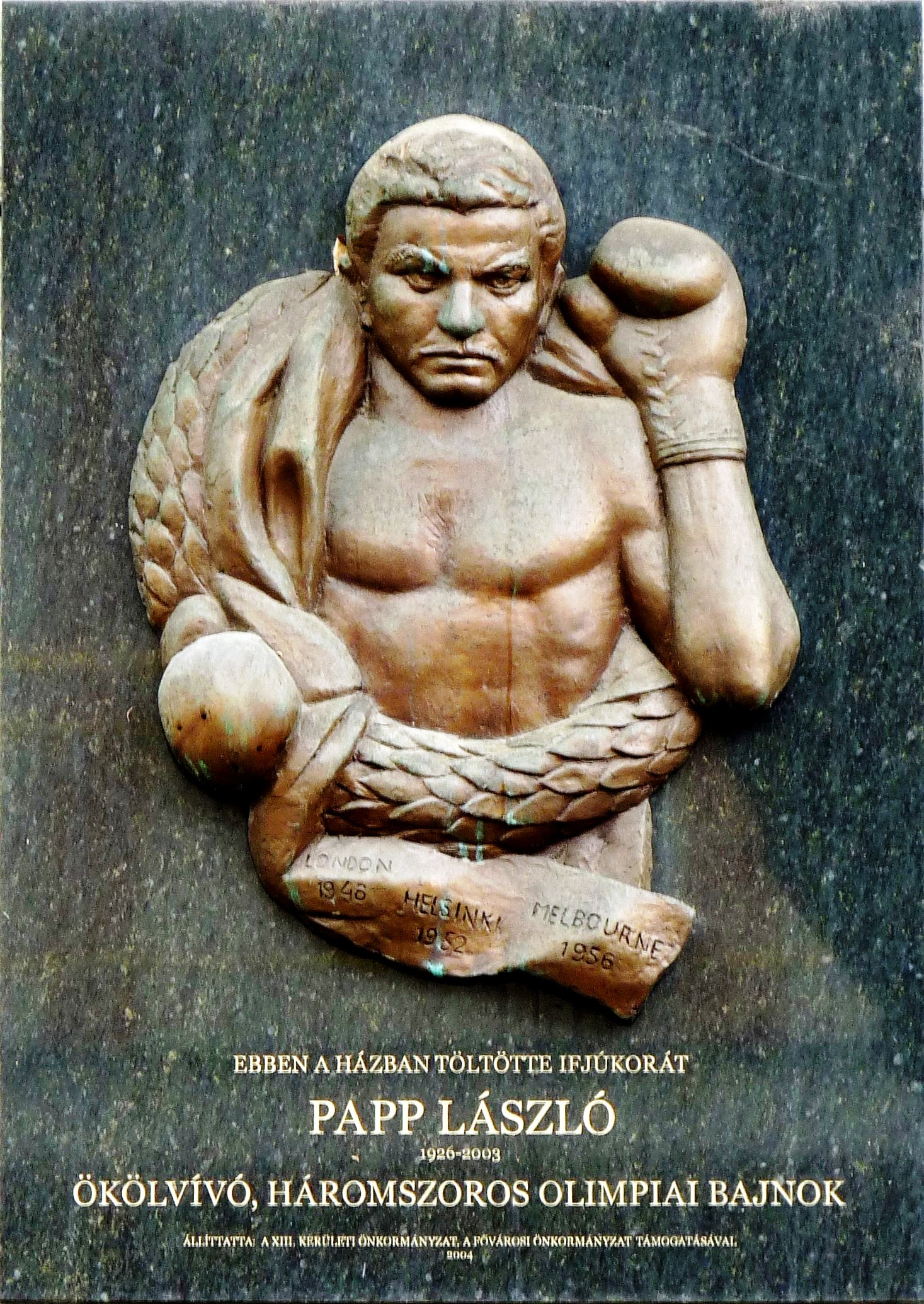 Commemorative plaque to Mr. László Papp (1926-2003) Hungarian Olympic champion boxer, trainer and sports manager. The plaque is affixed to the front of the house where he spent his childhood. It was unveiled on November 4, 2004. Author of the bronz relief is Mr. Ferenc Gyurcsek. (Budapest, District XIII, Kassák Lajos Street Nr 48).